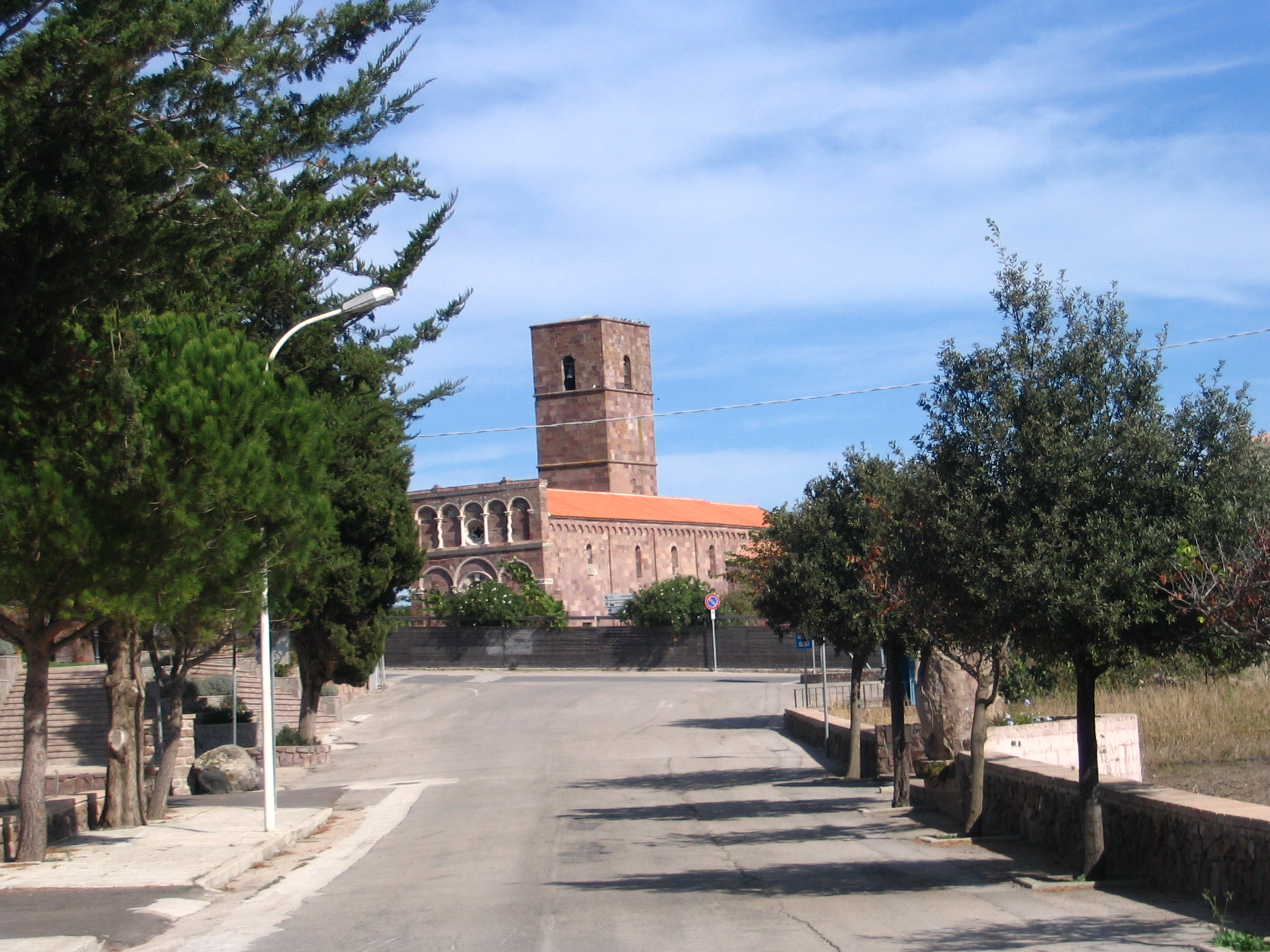 Church from Tergu in northern Sardinia